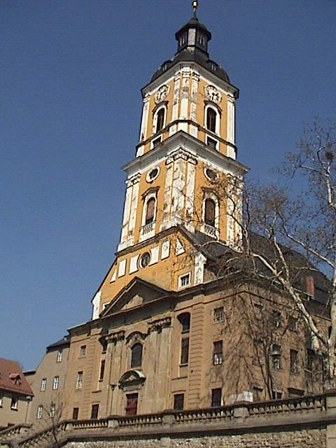 Gera, Germany: Salvator Church